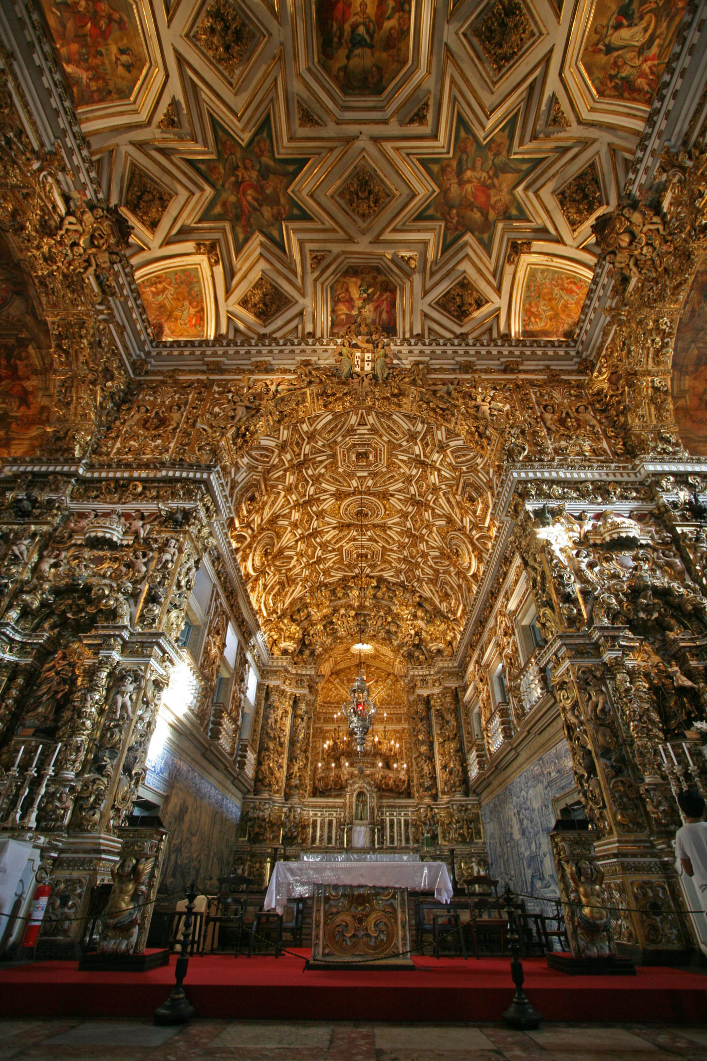 Main chapel of baroque Saint Francis Church of Salvador, Bahia, Brazil